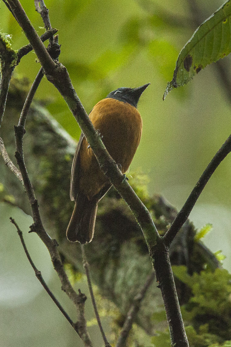 Blue-fronted Flycatcher - Sulawesi_MG_5103